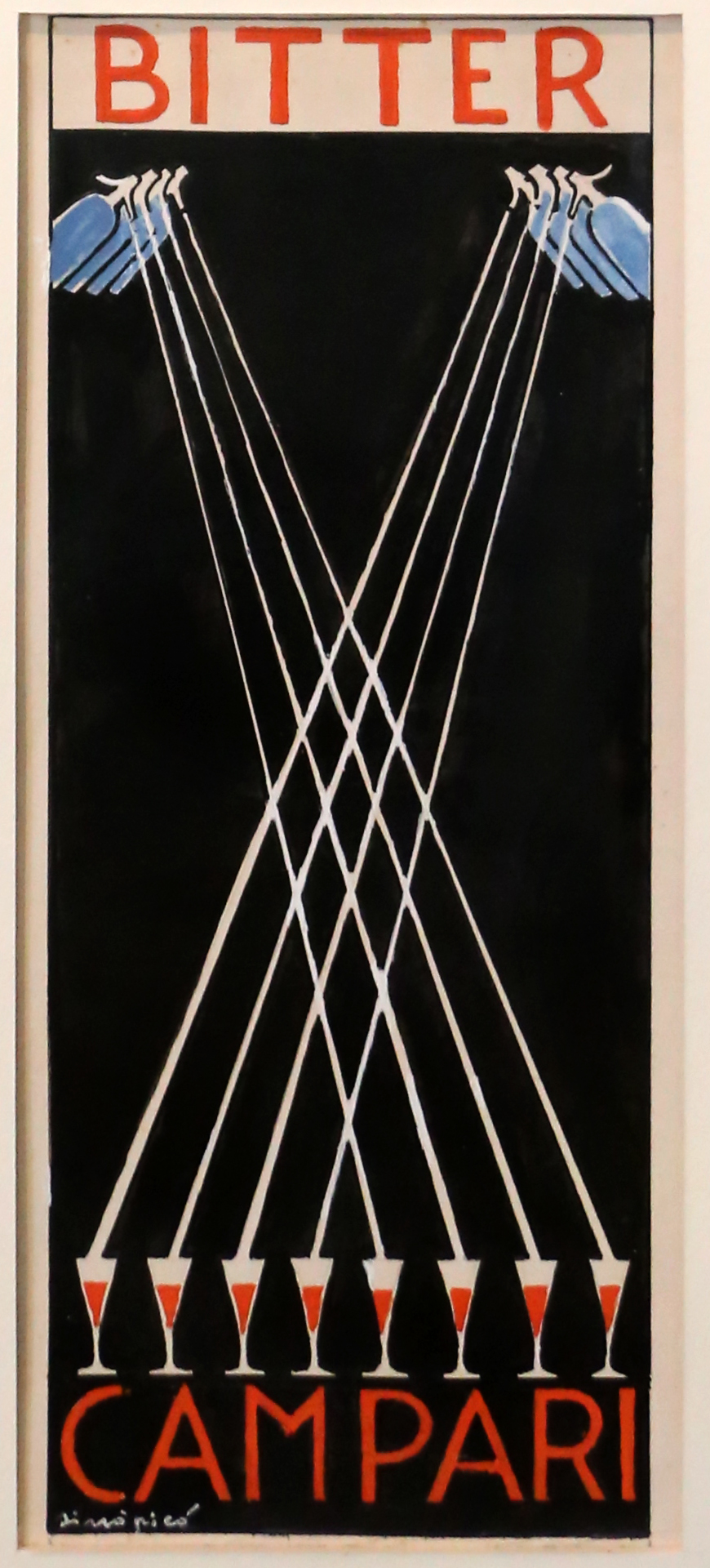 Galleria Campari - Interior